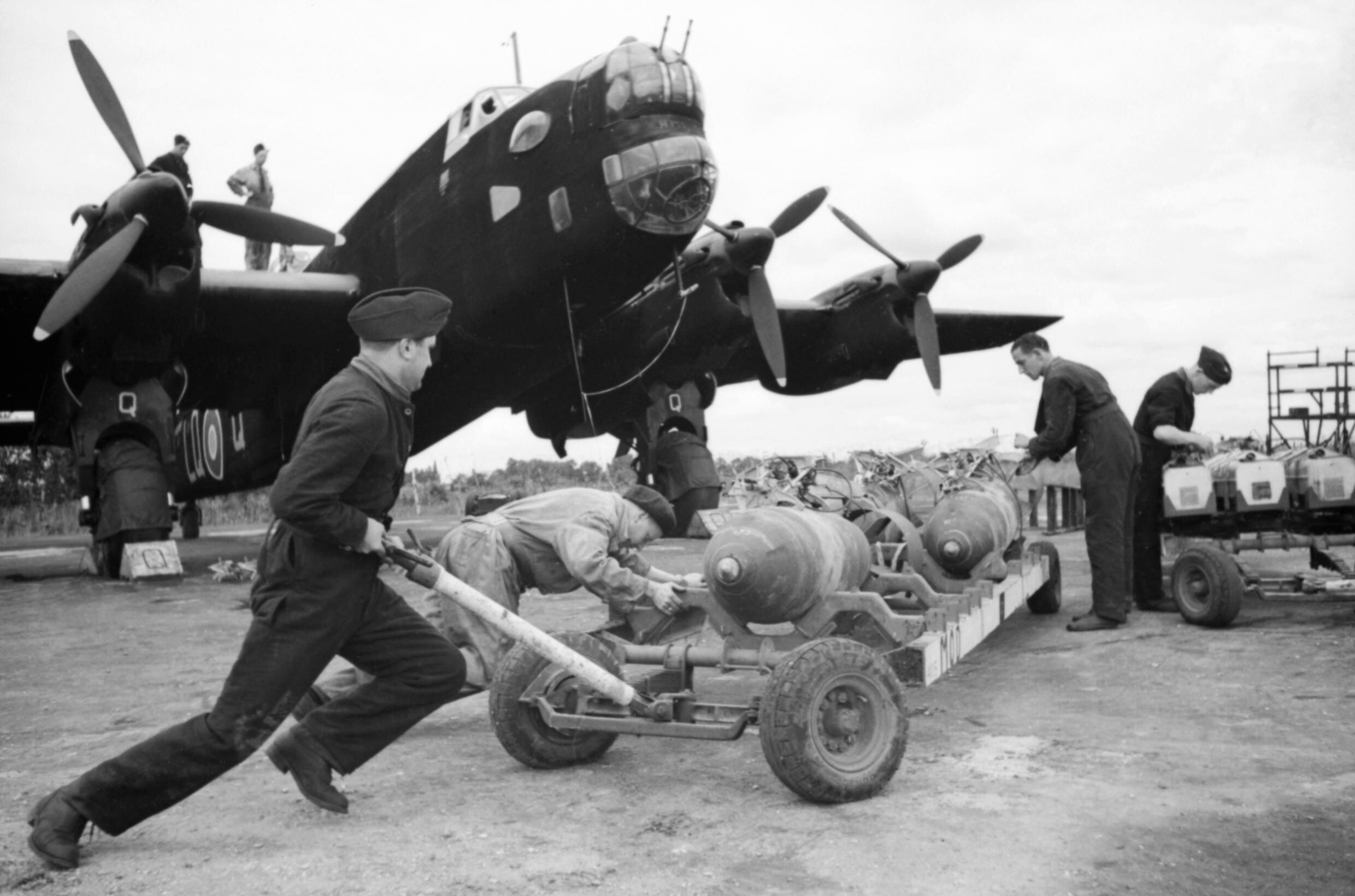 Armourers 'bombing up' a Handley Page Halifax Mk II of No. 405 Squadron RCAF at Pocklington in Yorkshire, August 1942. Armourers wheel a trolley of 1,000-lb MC bombs into position for hoisting into Handley Page Halifax Mark II, 'LQ-Q' of No. 405 Squadron RCAF, at Pocklington, Yorkshire. On the right, another armourer is fitting the release gear to Small Bomb Containers (SBCs) filled with 30-lb incendiary bombs.